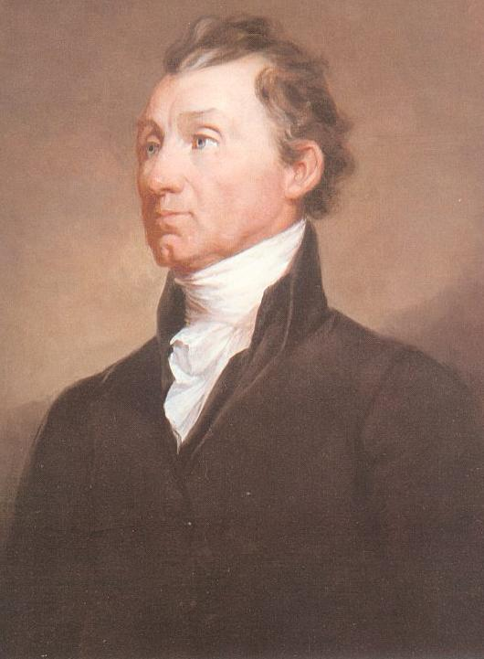 James Monroe.